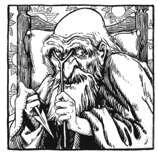 Yspathaden Penkawr (Ysbaddaden Bencawr), in "The Wooing of Olwen" created by John D. Batten for Joseph Jacob's collection Celtic Fairy Tales.